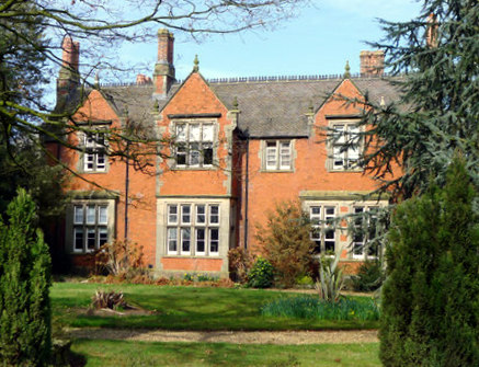 Norton Grange; formerly the Rectory of Norton Juxta Twycross. Now administrative offices of Twycross Zoo